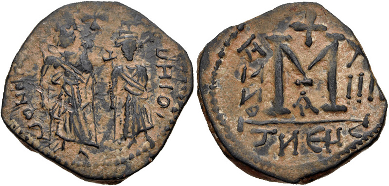 SASANIAN KINGS. temp. Husrav (Khosrau) II. AD 590-628. Æ Follis (29mm, 10.17 g, 6h). Imitating a Byzantine follis of Heraclius with Heraclius Constantine. Uncertain Syrian mint. Struck during the Sasanian occupation of Syria, 610-629. Heraclius and Heraclius Constantine standing facing, each crowned and holding globus cruciger; cross above / Large M; cross above, A/И/И/O X/IIII to left and right; A//τИЄЧC (τ retrograde). Pottier Class IV(2), 59.1 (same dies). Good VF, black desert patina. Scarce.